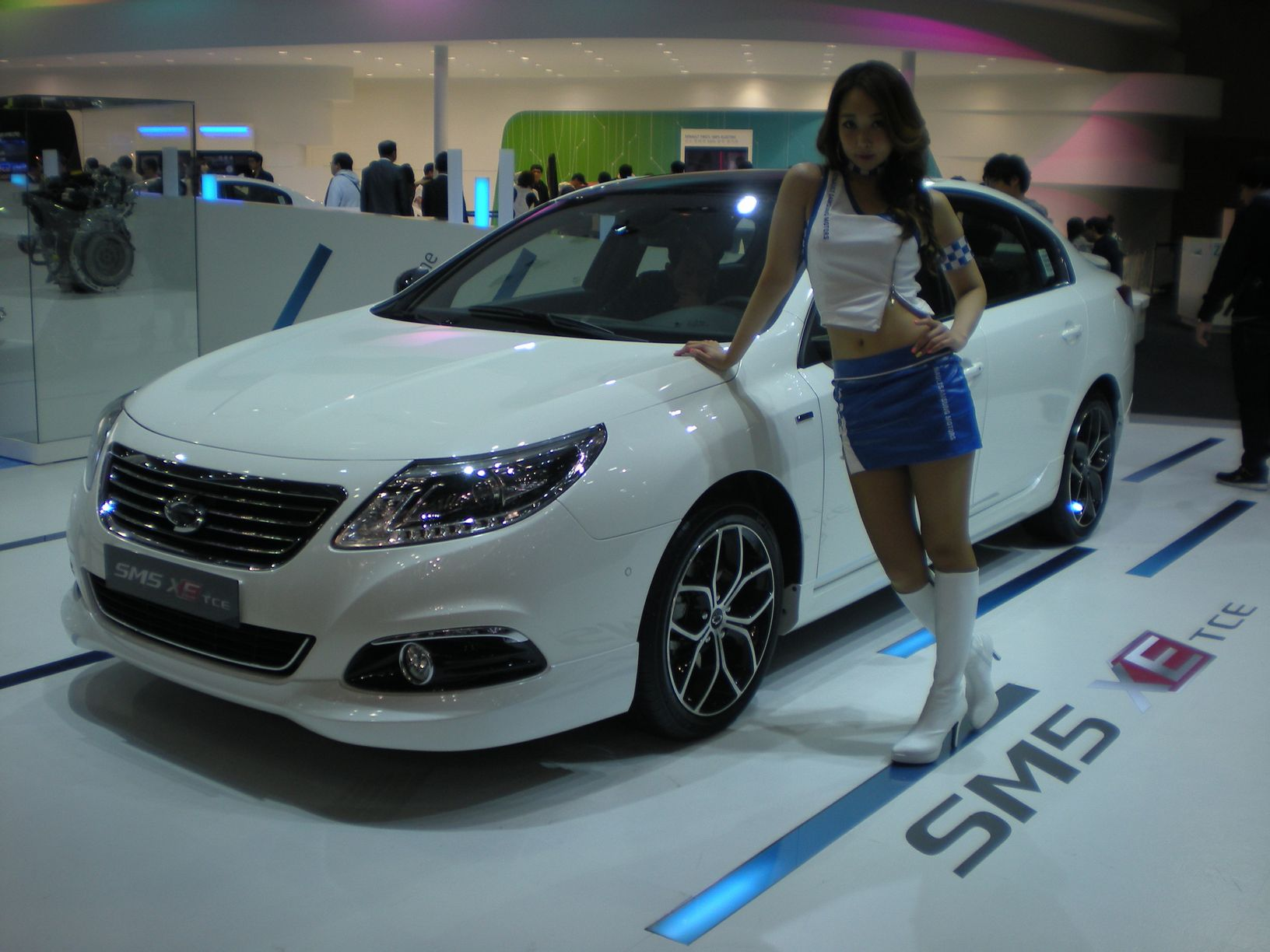 RENAULT SAMSUNG SM5